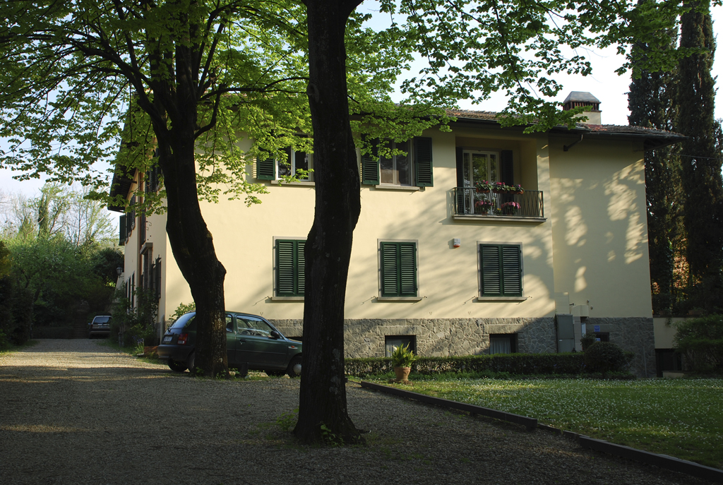 The Garden of Dutch Contemporary Sculpture, Florence, Italy. The building of Dutch University Institute of History of Art (NIKI - Nederlands Interuniversitair Kunsthistorisch Instituut).